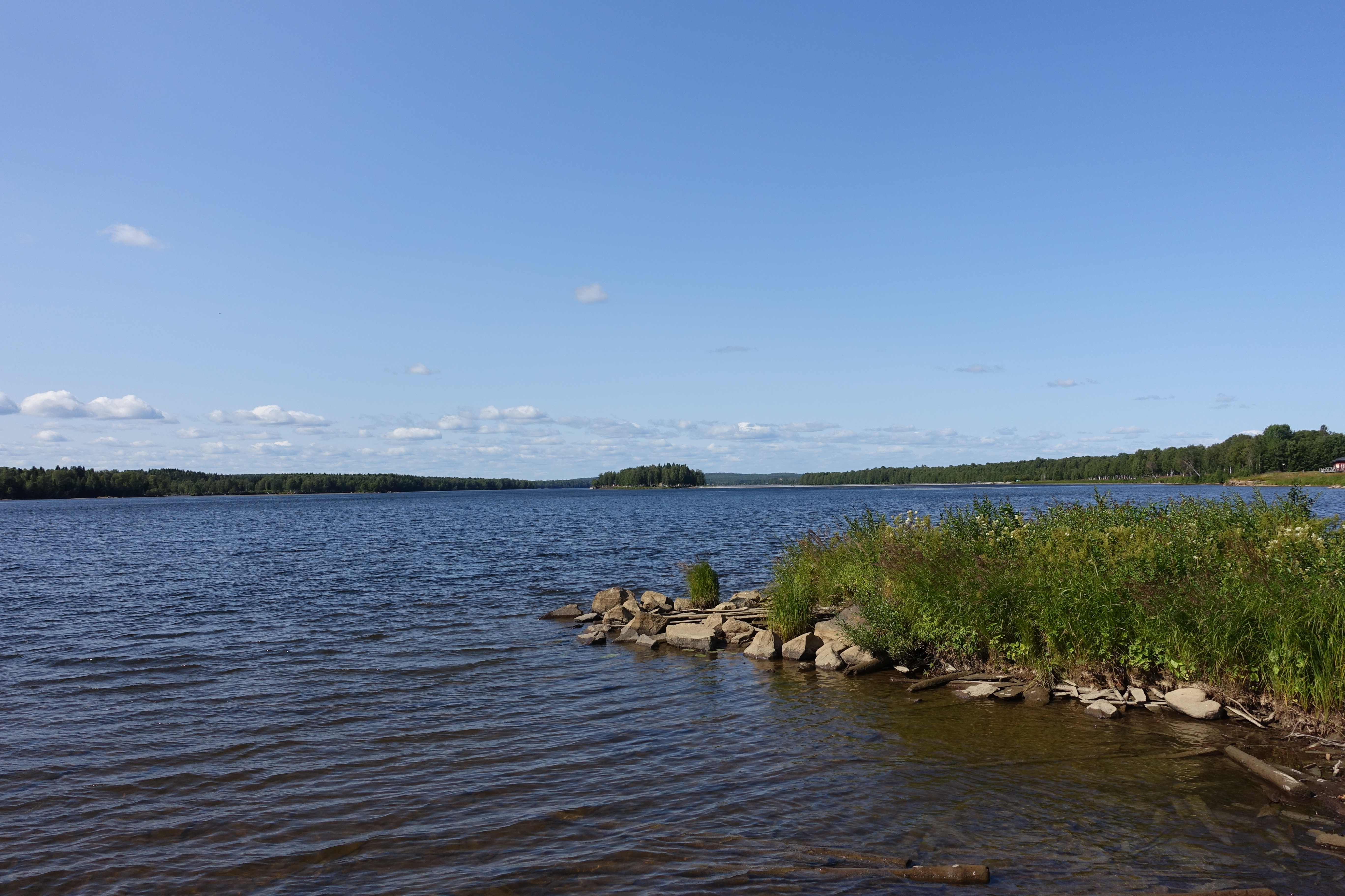 Kalixälven utsikt från Kalix